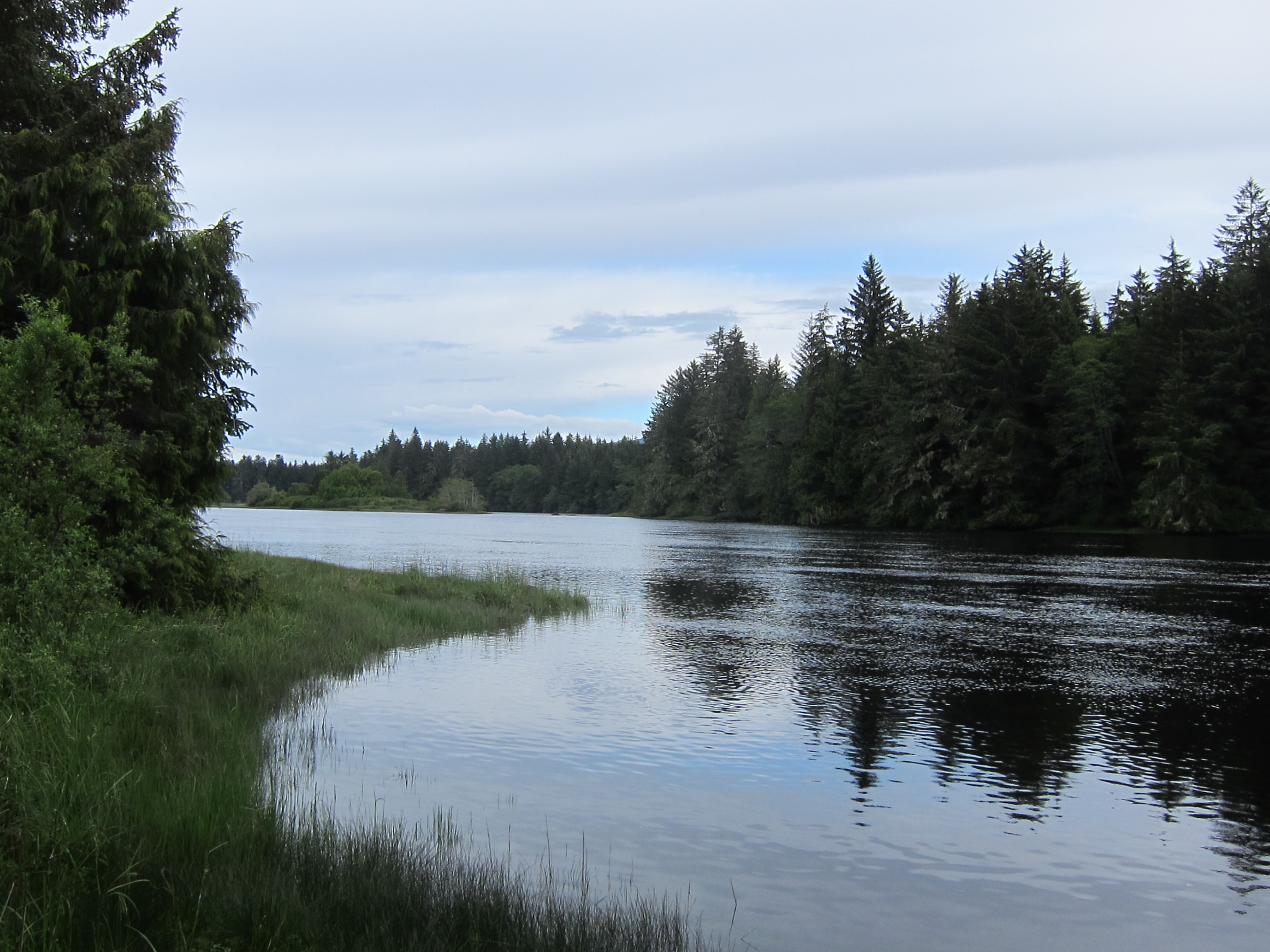 The lower Nimpkish River near the Highway 19 bridge